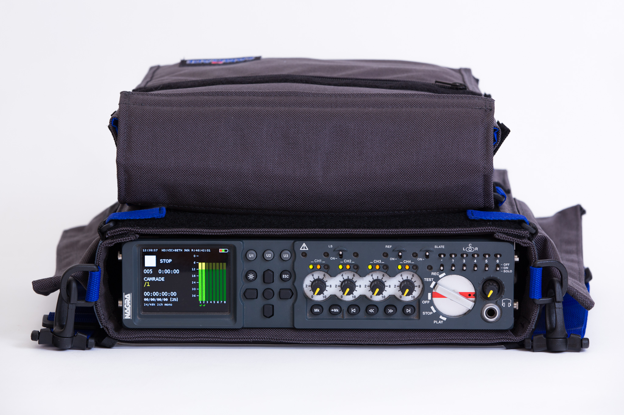 Nagra VI in bag